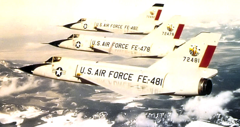 Convair F-106A-85-CO Delta Dart 57-2481 498th Fighter-Interceptor Squadron (ADC) Convair F-106A-80-CO Delta Dart 57-2470 498th Fighter-Interceptor Squadron (ADC) Convair F-106A-75-CO Delta Dart 57-2462 498th Fighter-Interceptor Squadron (ADC) Markings while squadron stationed at Geiger Field, WA 57-2481 (c/n 8-24-64) to AMARC as FN0137 to QF-106 (AD185). Shot down by AIM-120 Jul 25, 1995. 57-2470 (c/n 8-24-53) to AMARC as FN0166 Dec 29, 1987. Was at Pima Air Museum Jan 28, 1991. To QF-106 (AD206). Shot down by AIM-120 Feb 1, 1994. 57-2462 crashed Dec 21, 1961